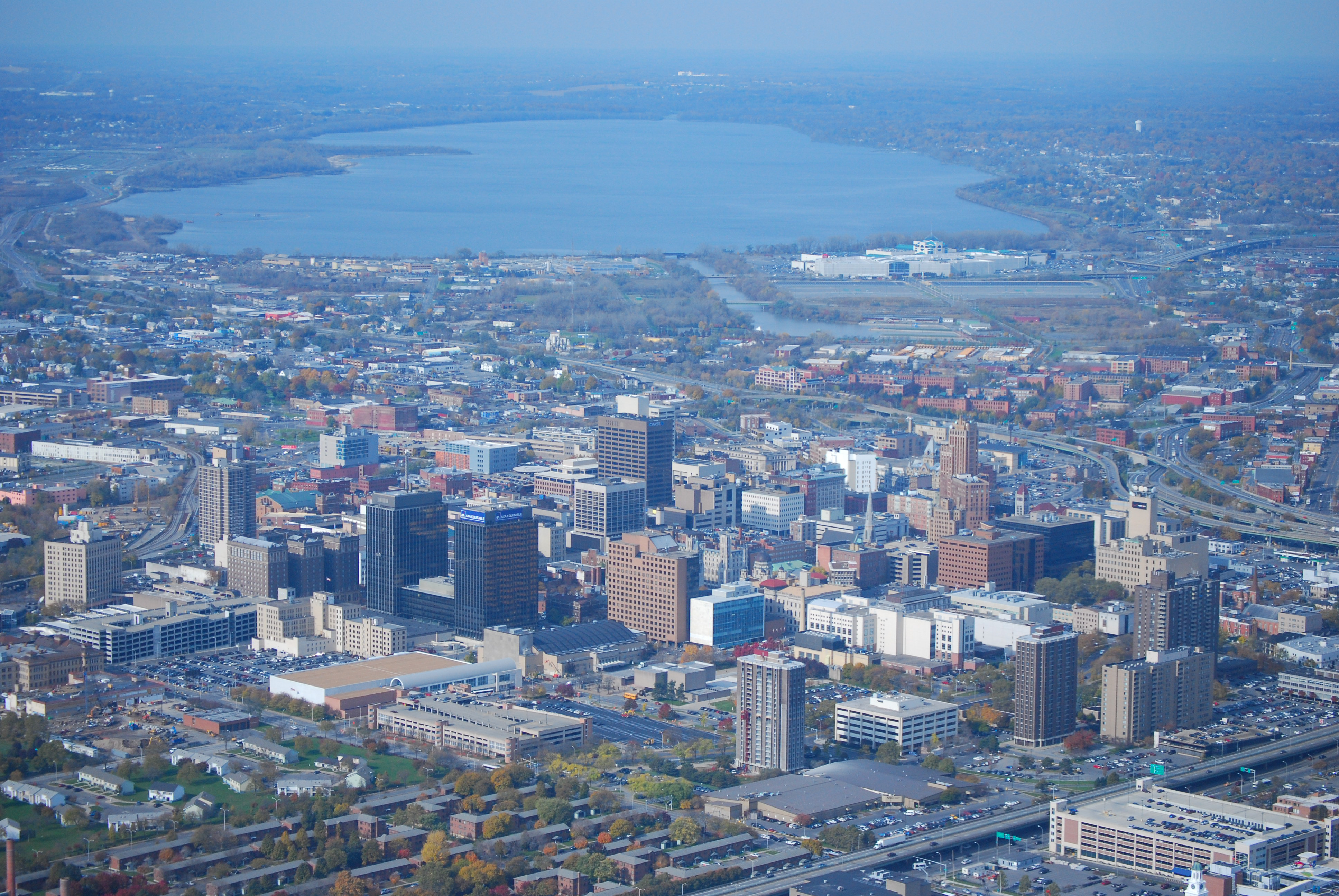 Downtown Syracuse, New York from helicopter. Onondaga Lake in background.